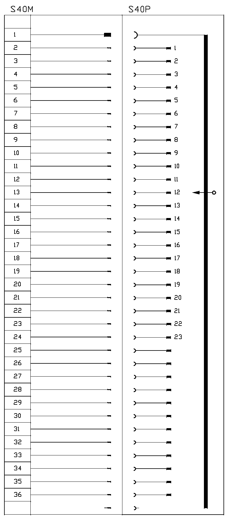 Layout of the standard contacts of a motor-driven transformer tap.